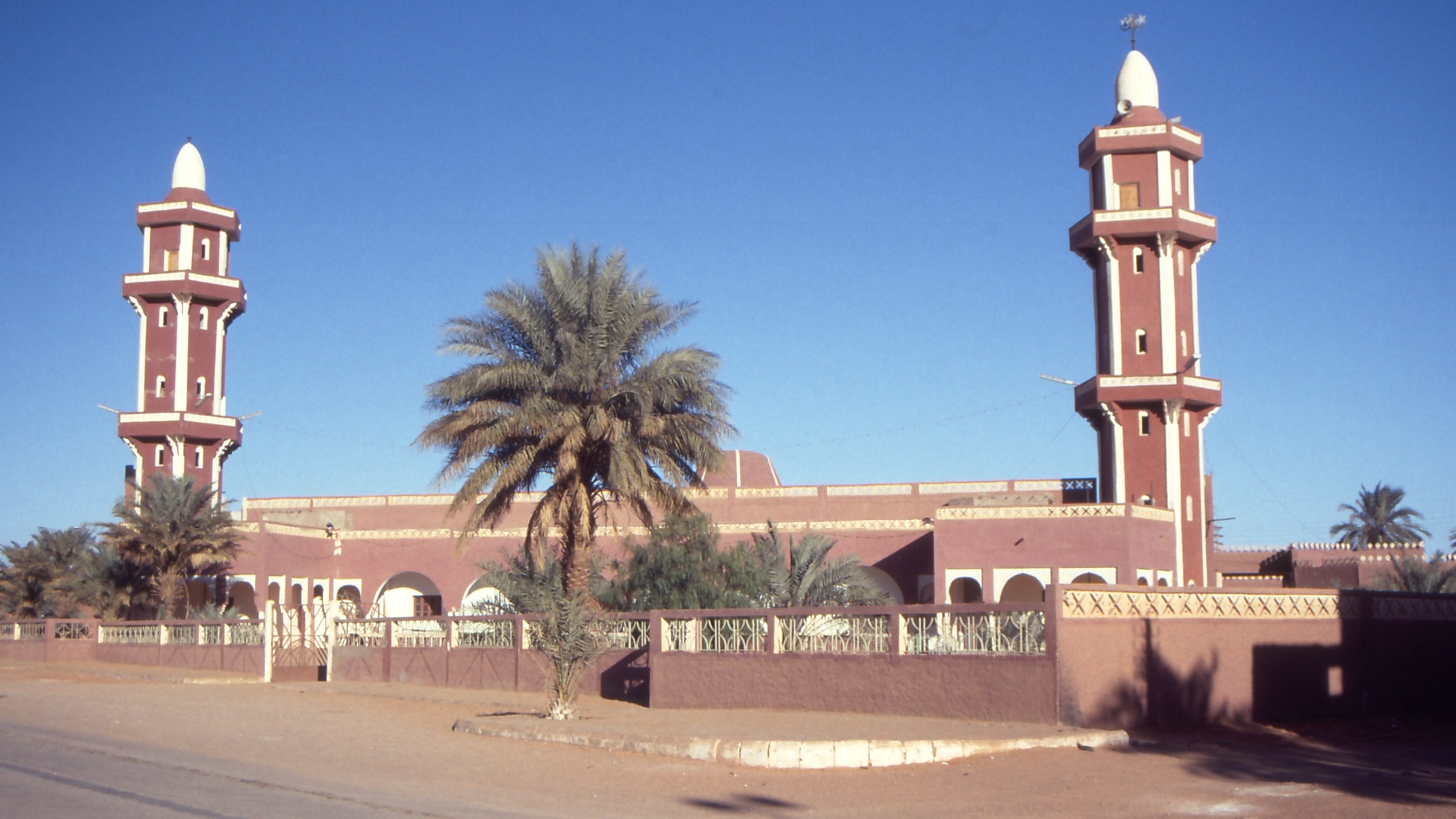 Great Mosque of Timimoun, Algeria (1990).